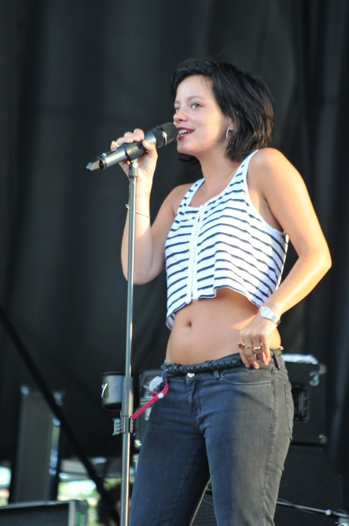 Lily Allen at the 2009 INmusic festival in Zagreb, Croatia